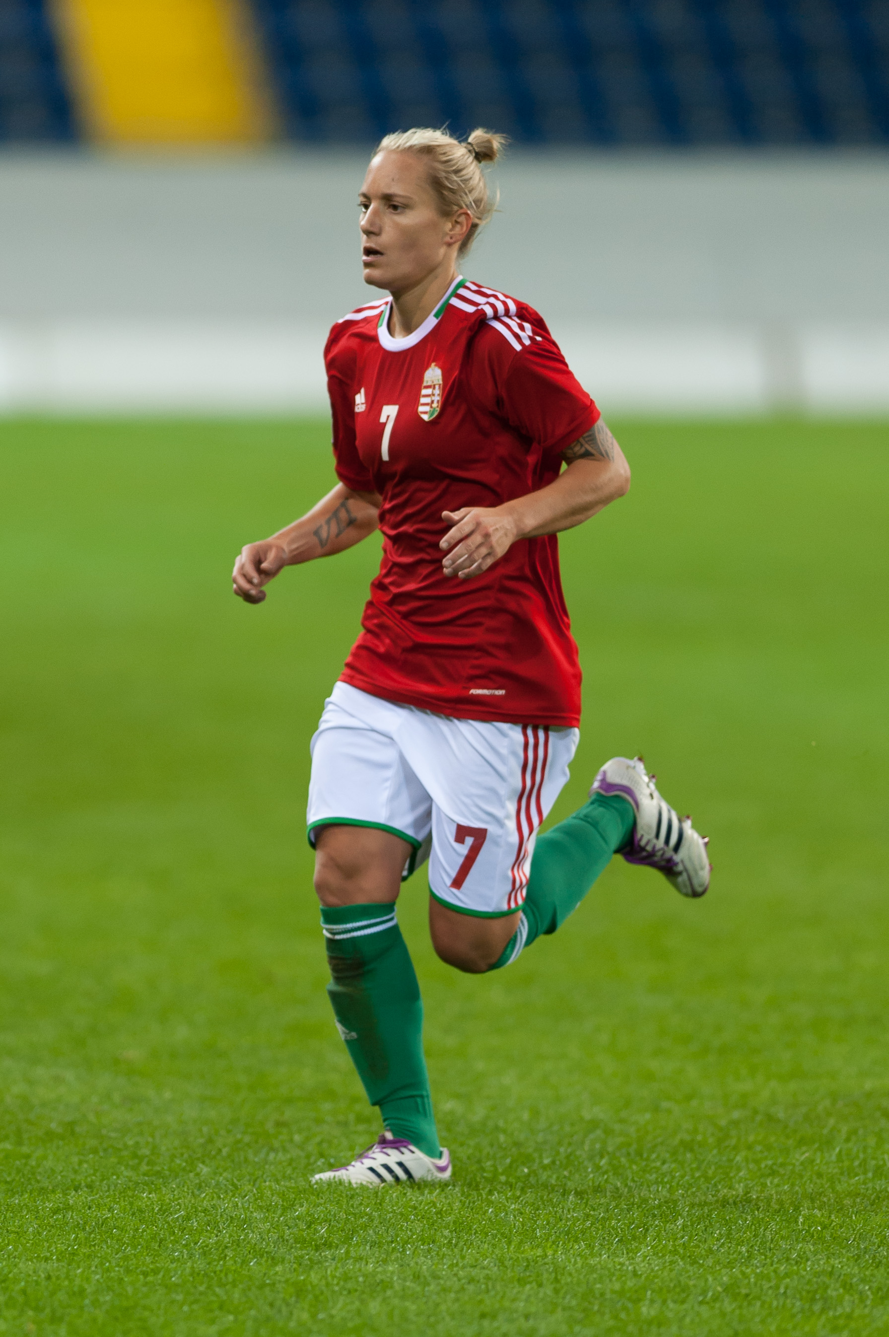 FIFA Women's World Cup 2015: Qualifying Round St. Pölten, 13.09.2014 Gabriella Tóth